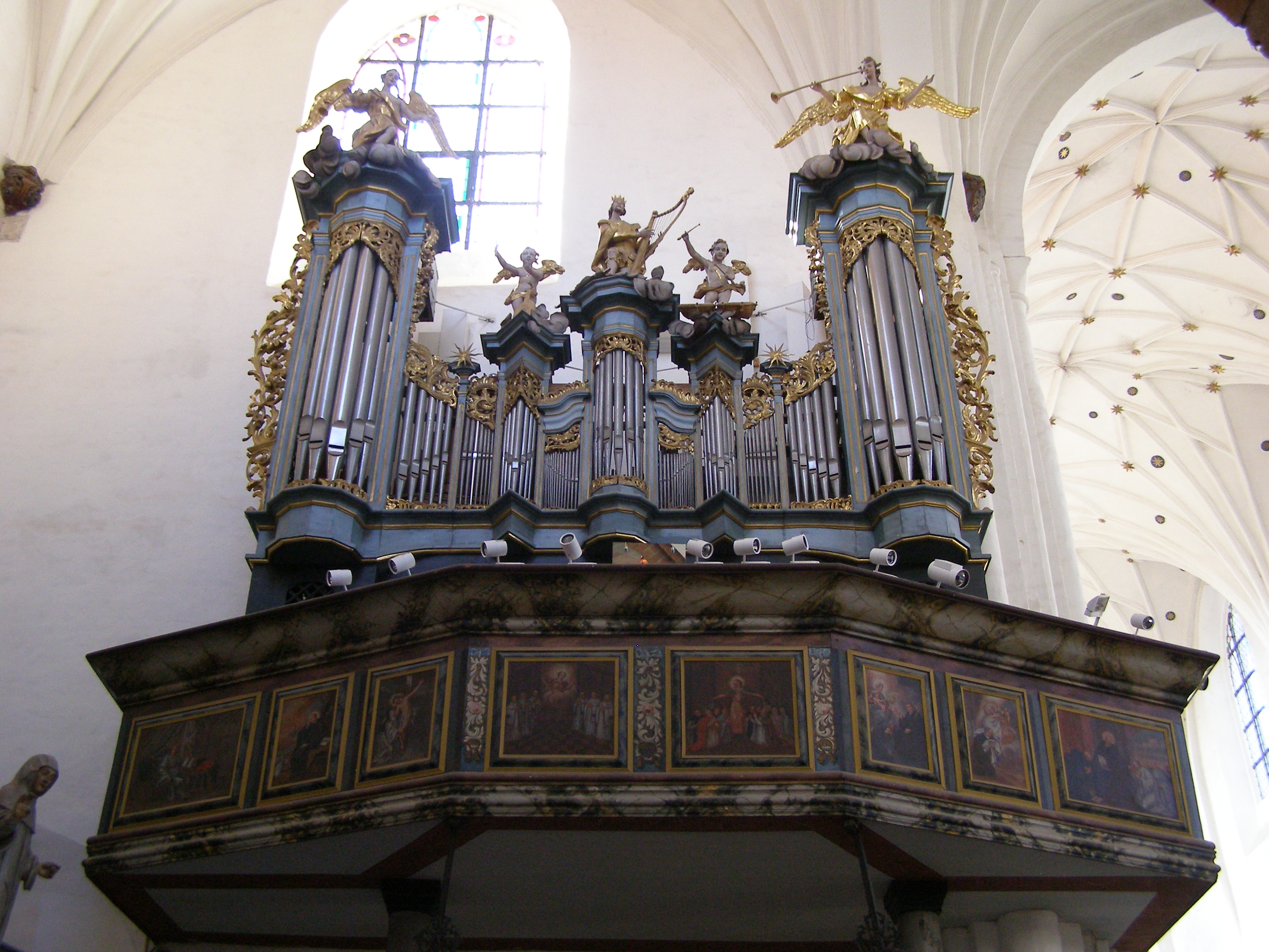 Gdańsk - Oliwa Cathedral - small pipe organs in the transept